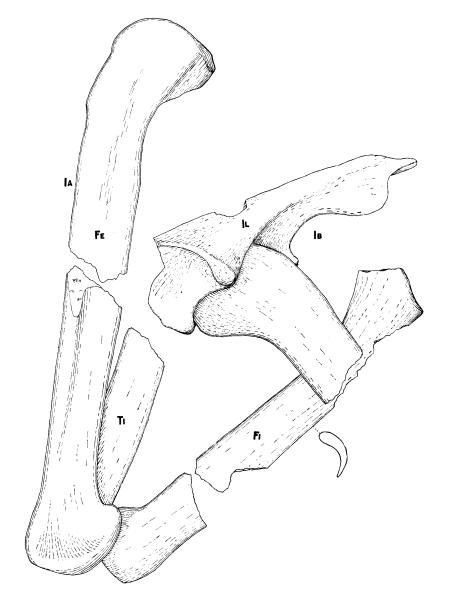 Illustration of the holotype specimen of Poposaurus gracilis including the left femur, tibia, and fibula and the right ilium and femur, from "Poposaurus gracilis, a new reptile from the Triassic of Wyoming" by M.G. Mehl (The Journal of Geology 23 (6): 516-522).